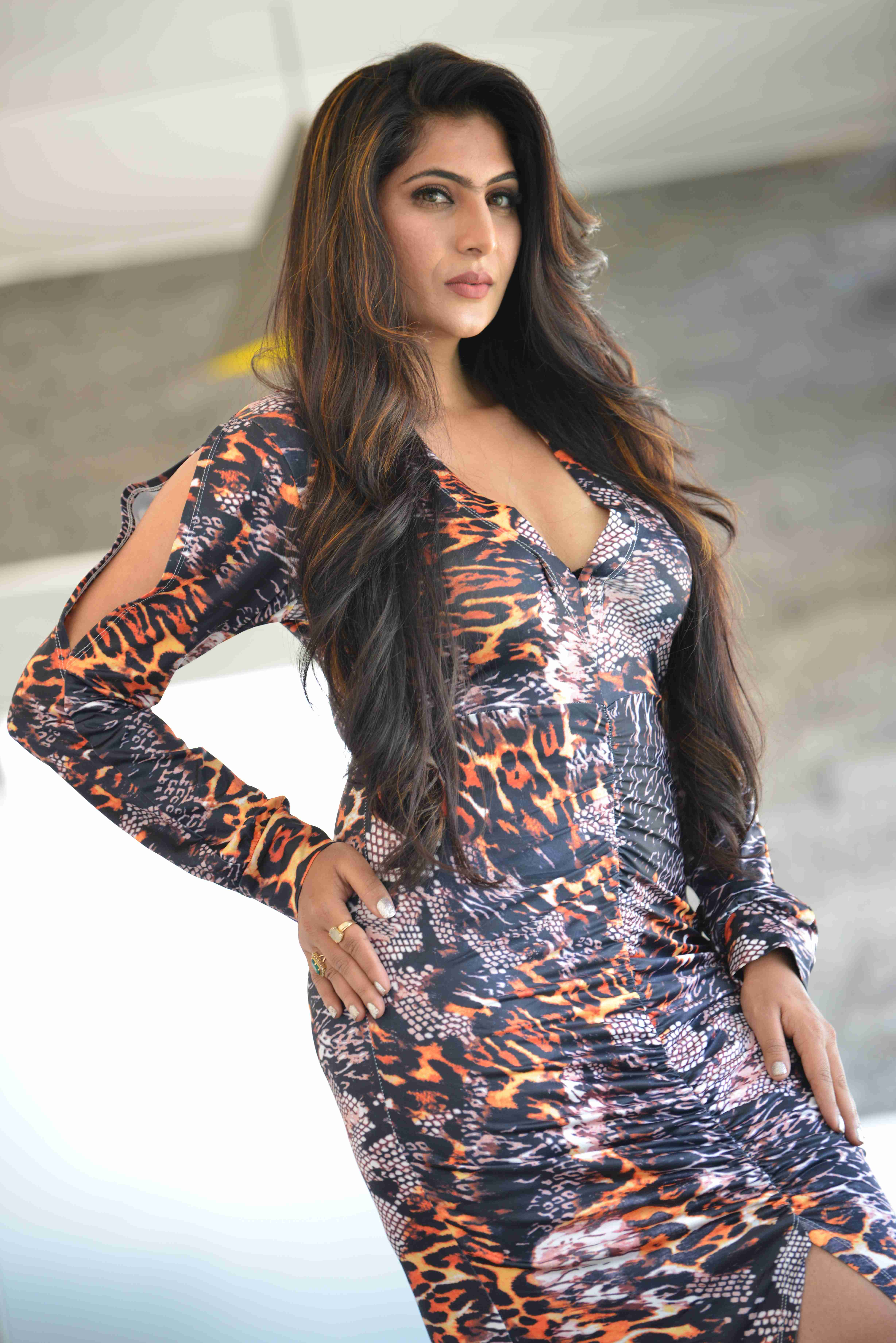 Photoshoot